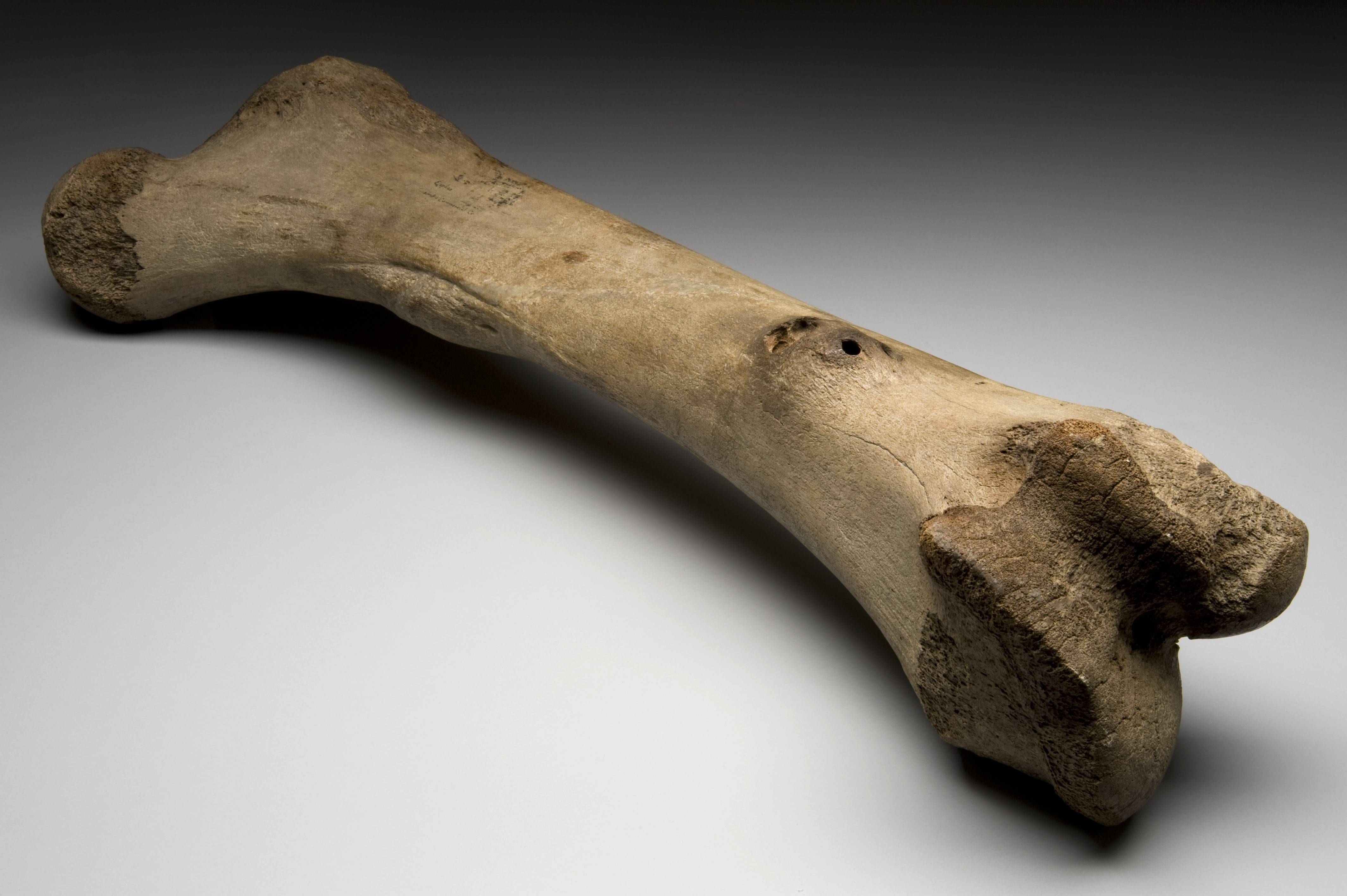 Disease has a very long history on Earth. From an extinct species of elephant – possibly a mammoth – this long leg bone measuring just under a metre shows two bone cysts. The bone dates from the Pleistocene Ice Age (11,500 to 1.8 million years ago). The bone was originally in the collection of Roy Moodie (1880-1934), an American paleopathologist who studied prehistoric disease. maker: Unknown maker Place made: Alaska, United States Wellcome Images Keywords: Femur; cyst; Bone and Bones; bone; Cysts